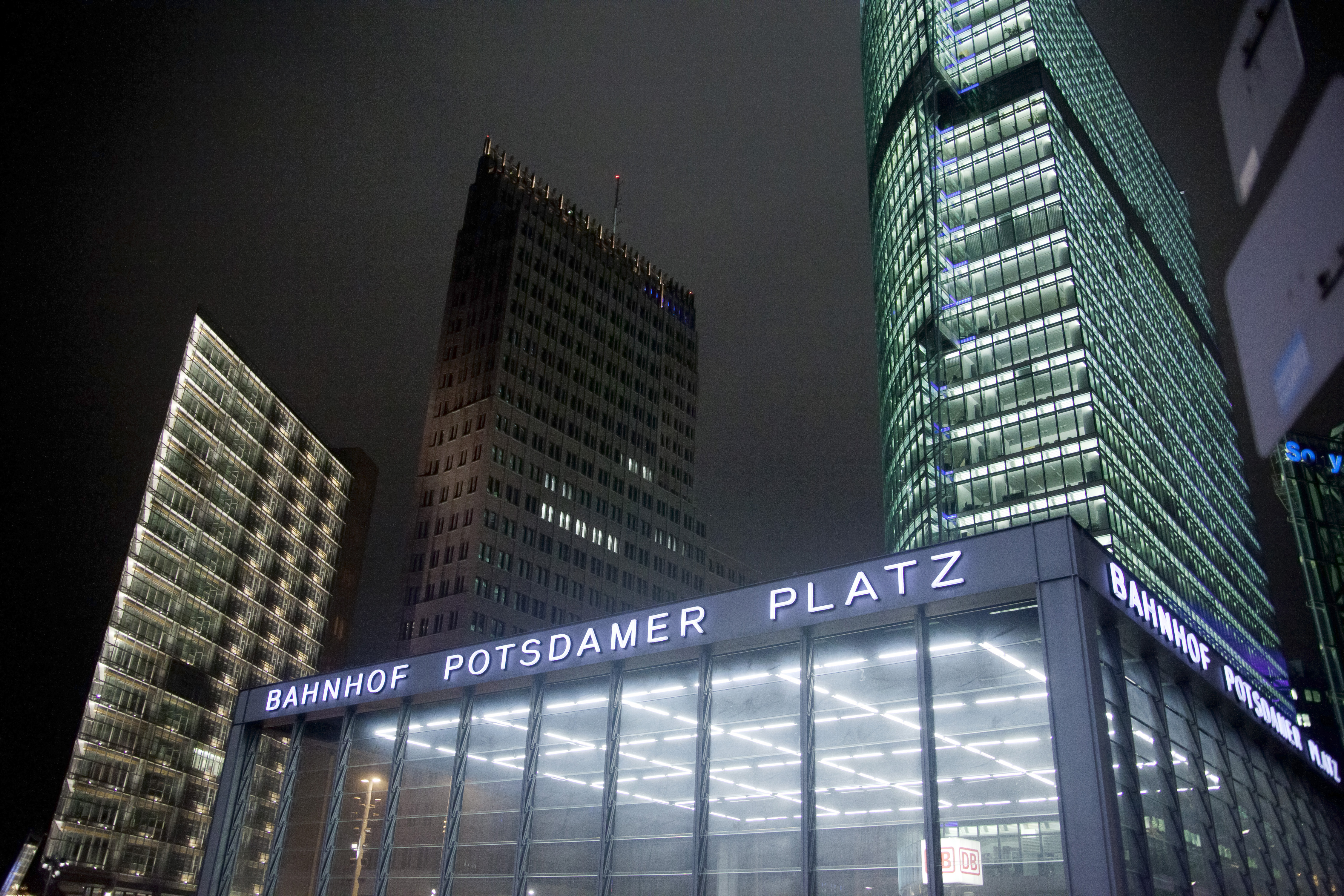 Berlin - Potsdamer Platz - Train station entrance at night